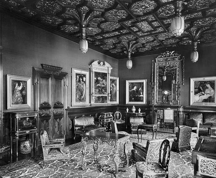 Frederick Richards Leyland's drawing room in 1892.